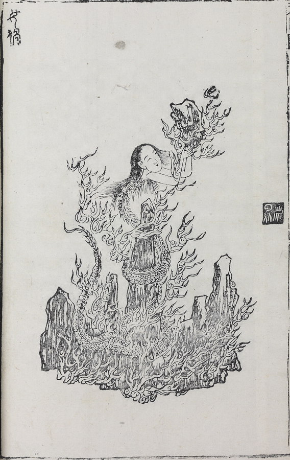 This image depicts the goddess Nüwa (女媧).